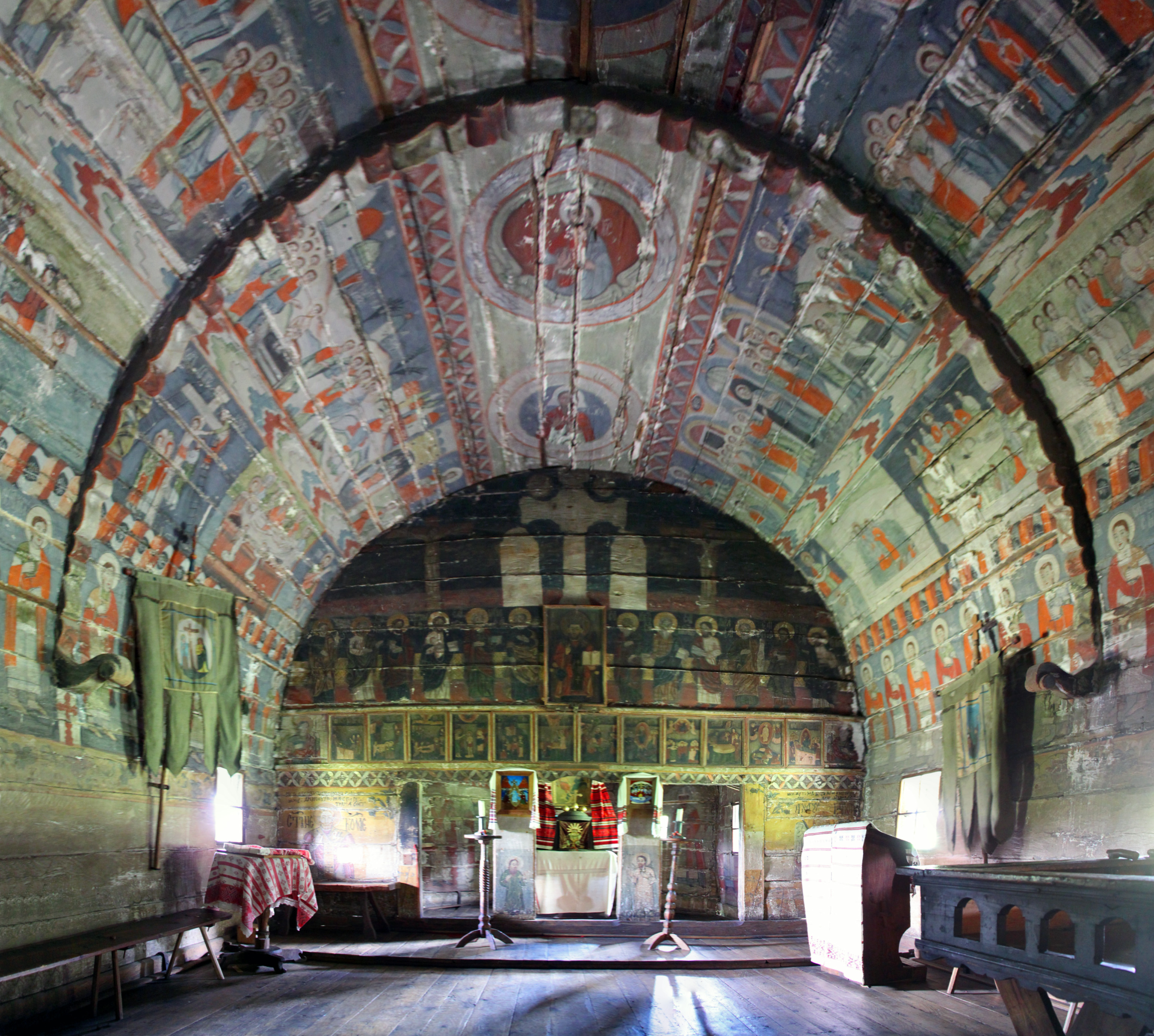 Wooden church in Cizer, Cluj